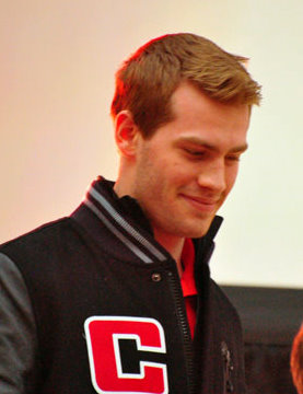 Team Canada forward Boone Jenner at a press conference for the 2012 World Junior Championships on December 23, 2011, in Edmonton, Alberta.